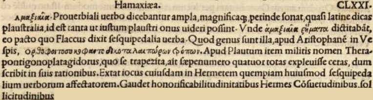 Desiderius Erasmus, 1508, Adagia. Entry mentioning the word honorificabilitudinitatibus.